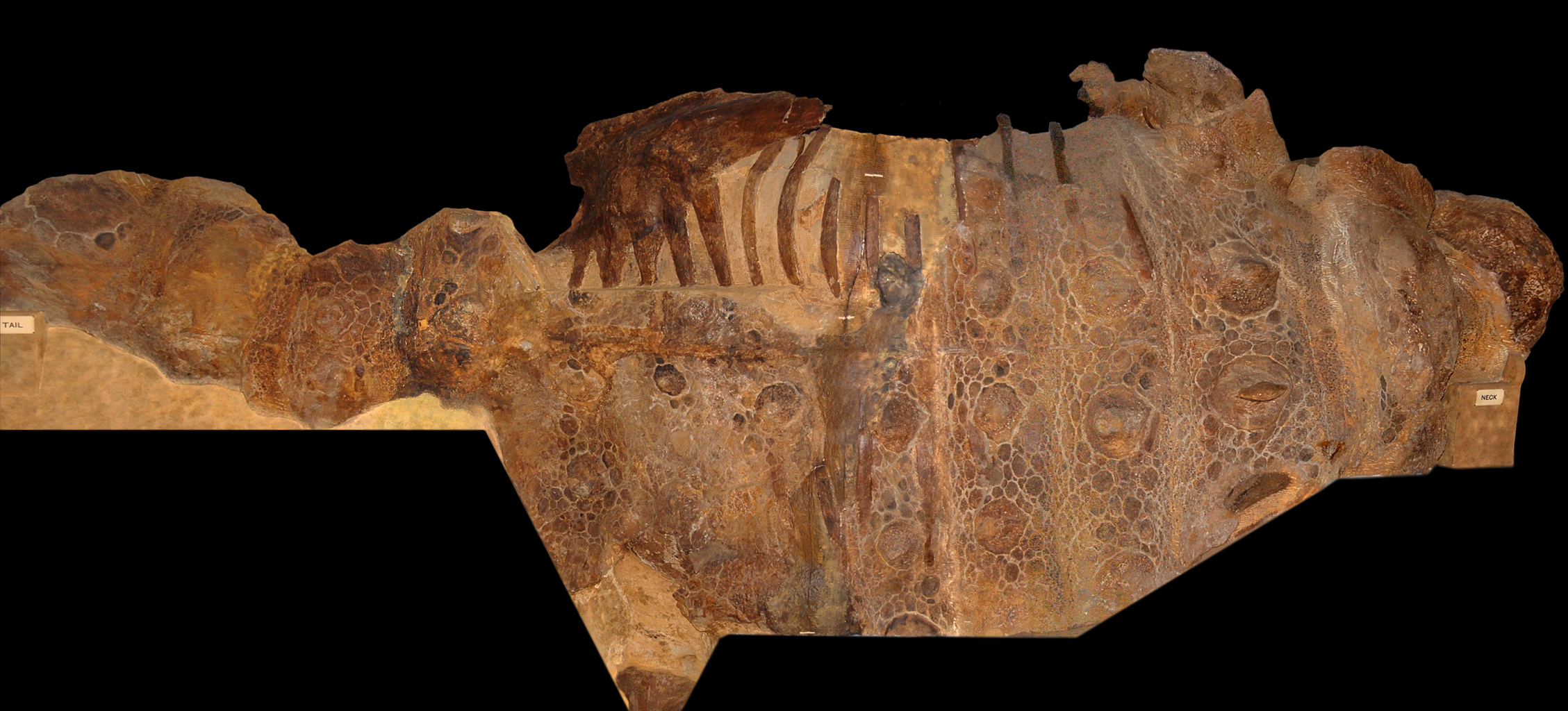 Scolosaurus mummy